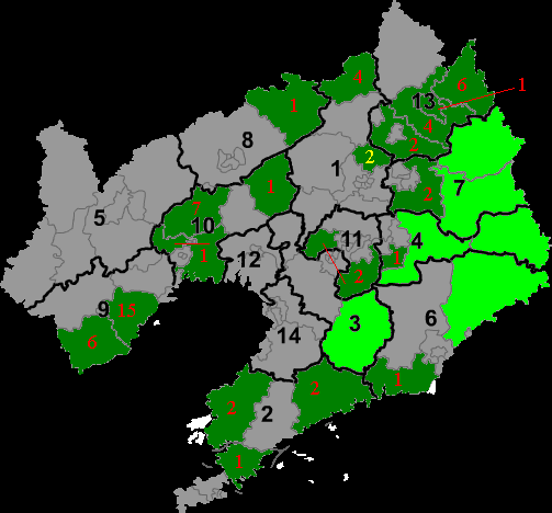 OPS!!: Information in this picture is badly deficient and inaccurate. Most of the regions in this picture are not coloured correctly, and the colours basically reflect no valuable information. Therefore it is recommended that this picture is removed along with its triplet siblings. In fact, the tables above this picture have similar problems and should be removed.